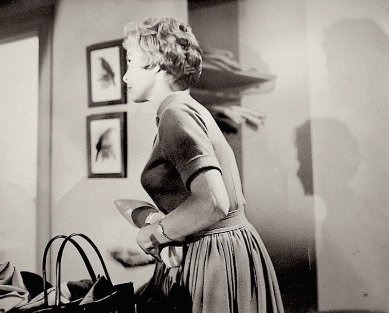 Publicity Photo of Janet Leigh from 1960 film Psycho